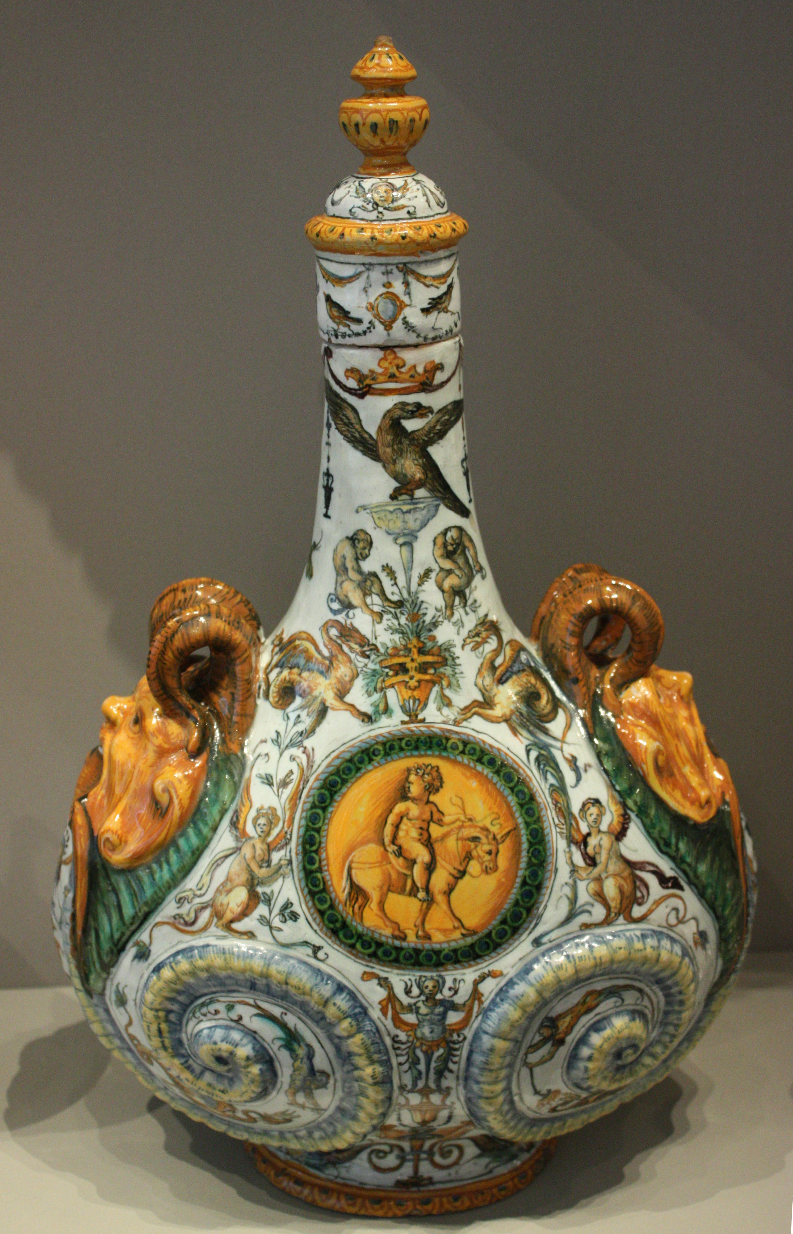 Pilgrim Bottle About 1560-70 Italy, Urbino Tin glazed earthenware (majolica) Fontana workshop. These flat-sided flasks, recalling similiar ones usd by pilgrims, were popular in the 16th century. Used for decanting or display, they were highly ornate. The classically inspired motifs and white background on this one are characteristic of the Fontana workshop in Urbino. The medallion in the centre imitates a Roman cameo. Collection ID: 8401:1,2-1863 This photo was taken as part of Britain Loves Wikipedia in February 2010 by Valerie McGlinchey.